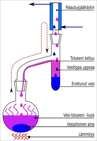 Azeotropic evaporation